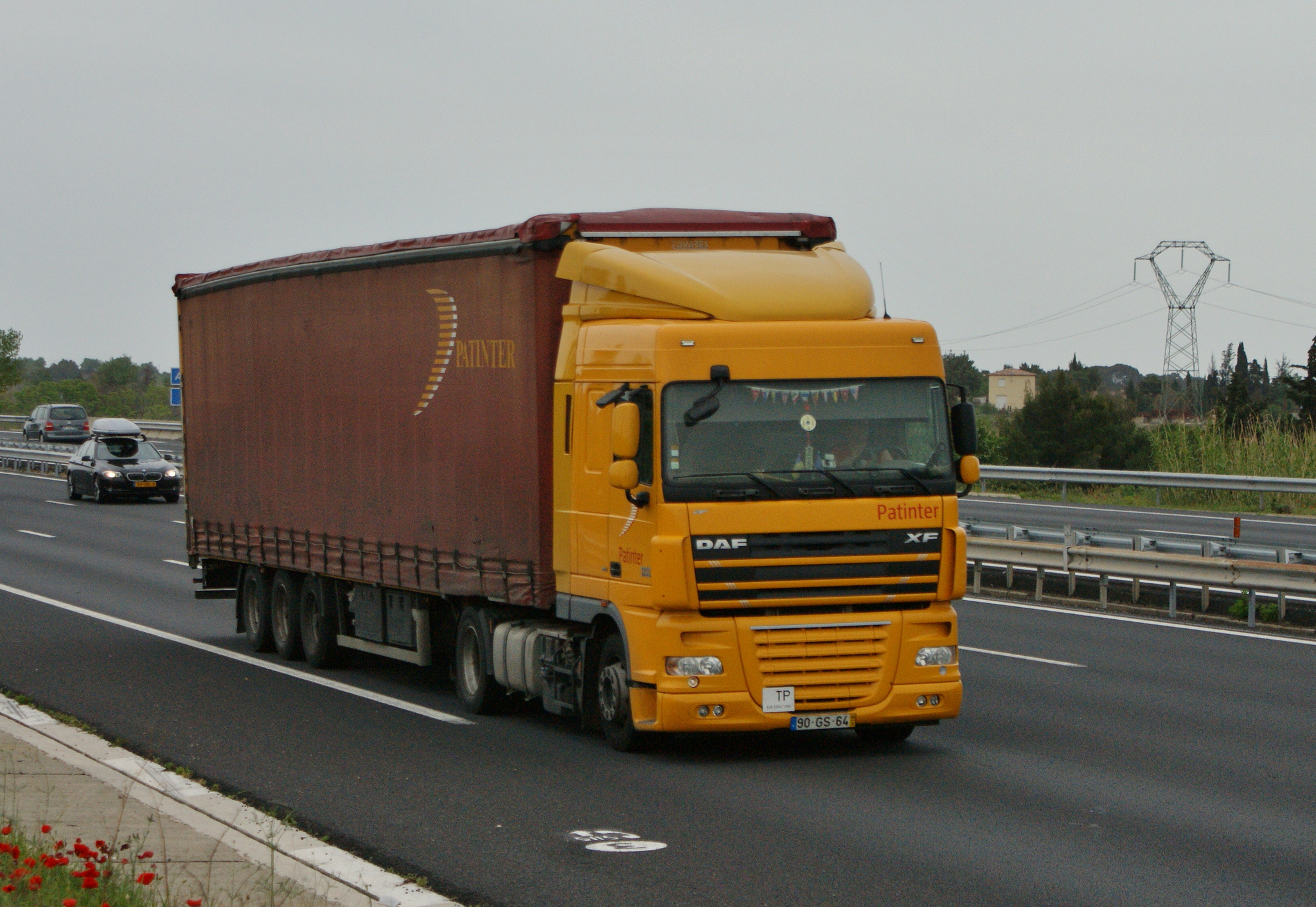 Patinter DAF XF